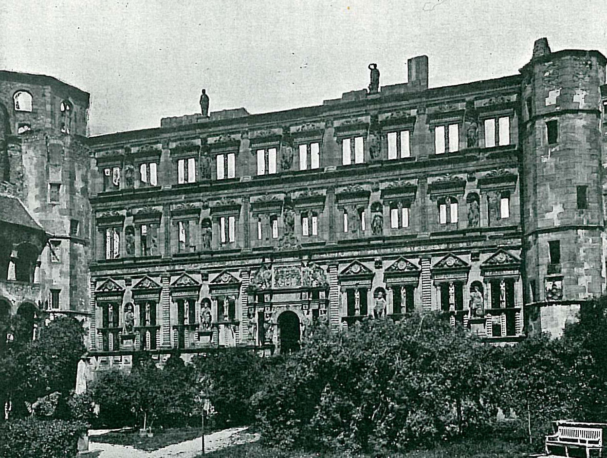 historical view of Heidelberg